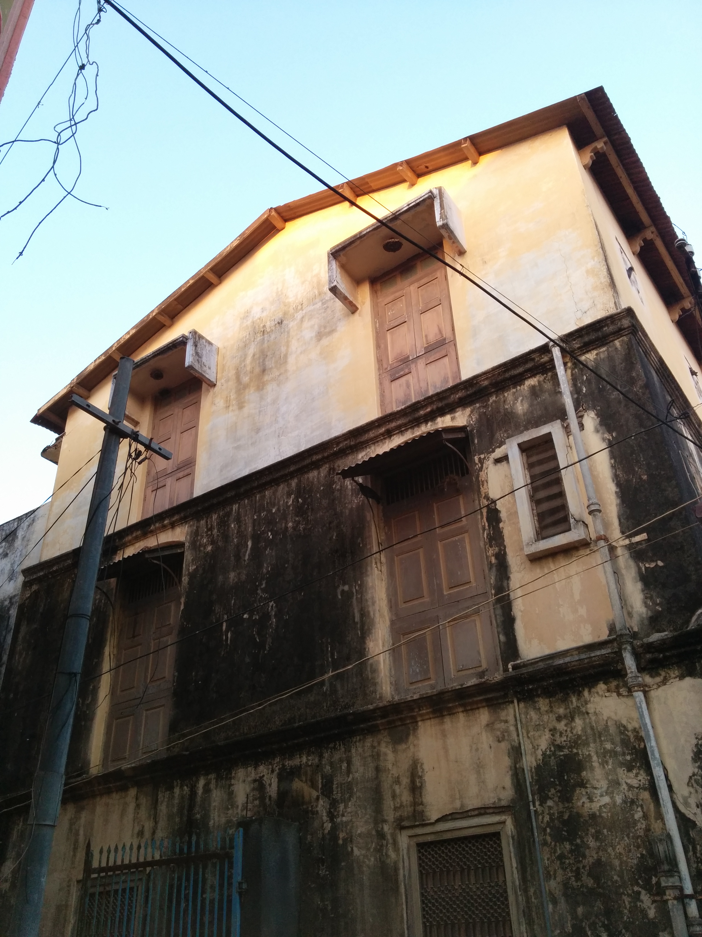 Birthplace and home of Gujarati author Chandrakant Baxi.